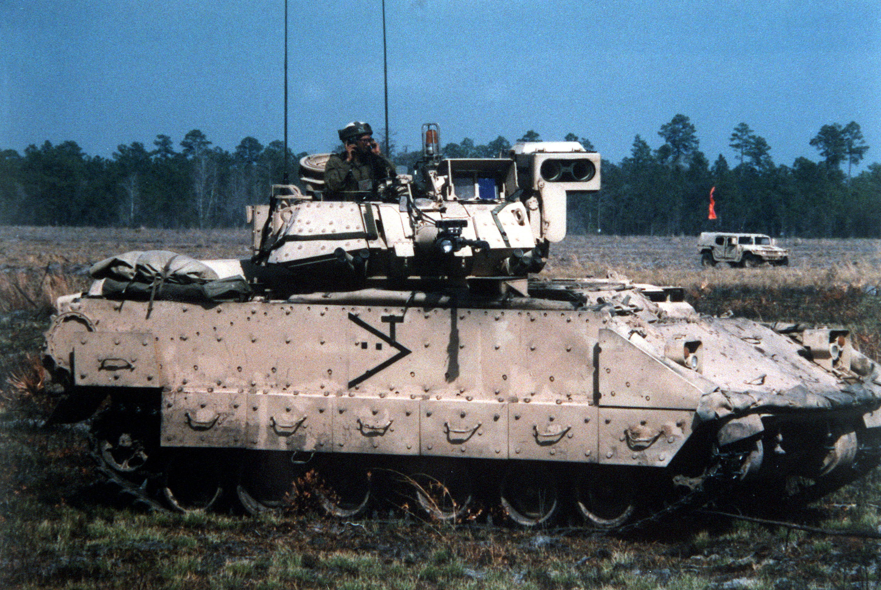 A 3/4 right front close in view of an M2A2 Bradley Infantry Fighting Vehicle (IFV) from the 1st Brigade, 24th Infantry Division (Mechanized) during a breaching exercise. A High-Mobility Multipurpose Wheeled Vehicle (HMMWV) is in the background.